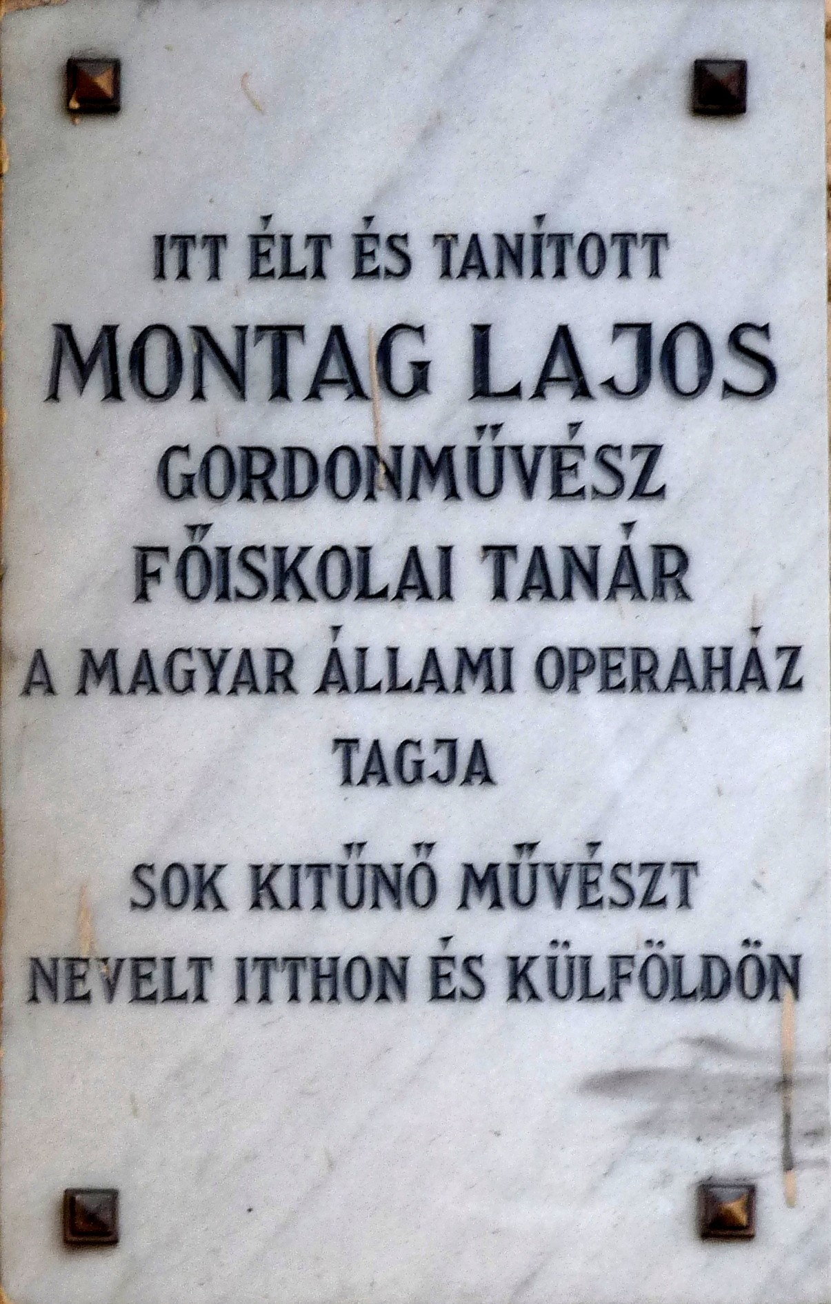 Lajos Montag commemorative plaque in Budapest District VI, Andrássy Avenue No 5.